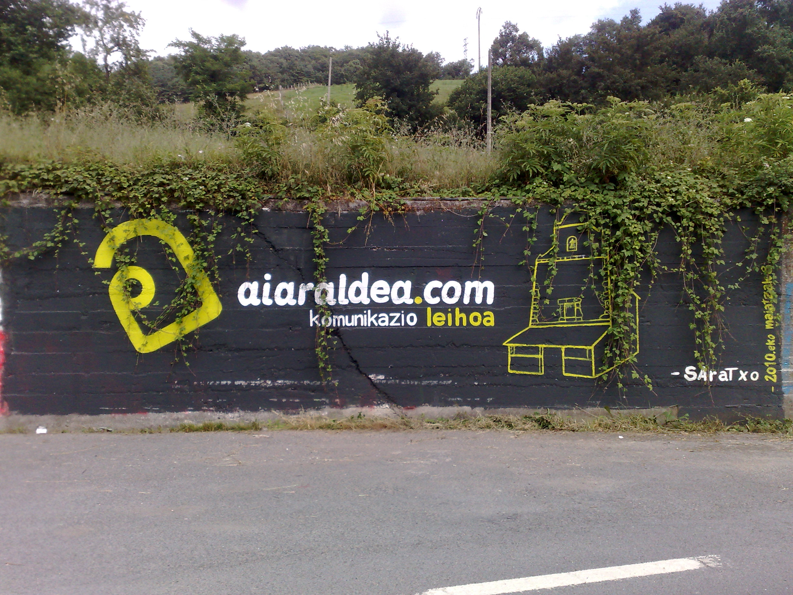 Painted wall about the internet media in Saratxo, Amurrio, Araba, Basque Country.